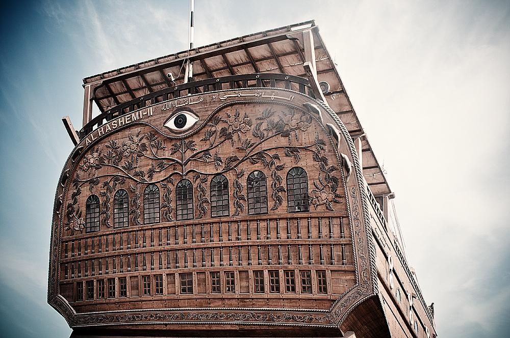 Alhashimi-II, the largest wooden boat